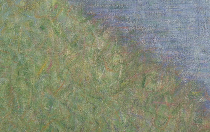 Brushstrokes in areas of grass and water